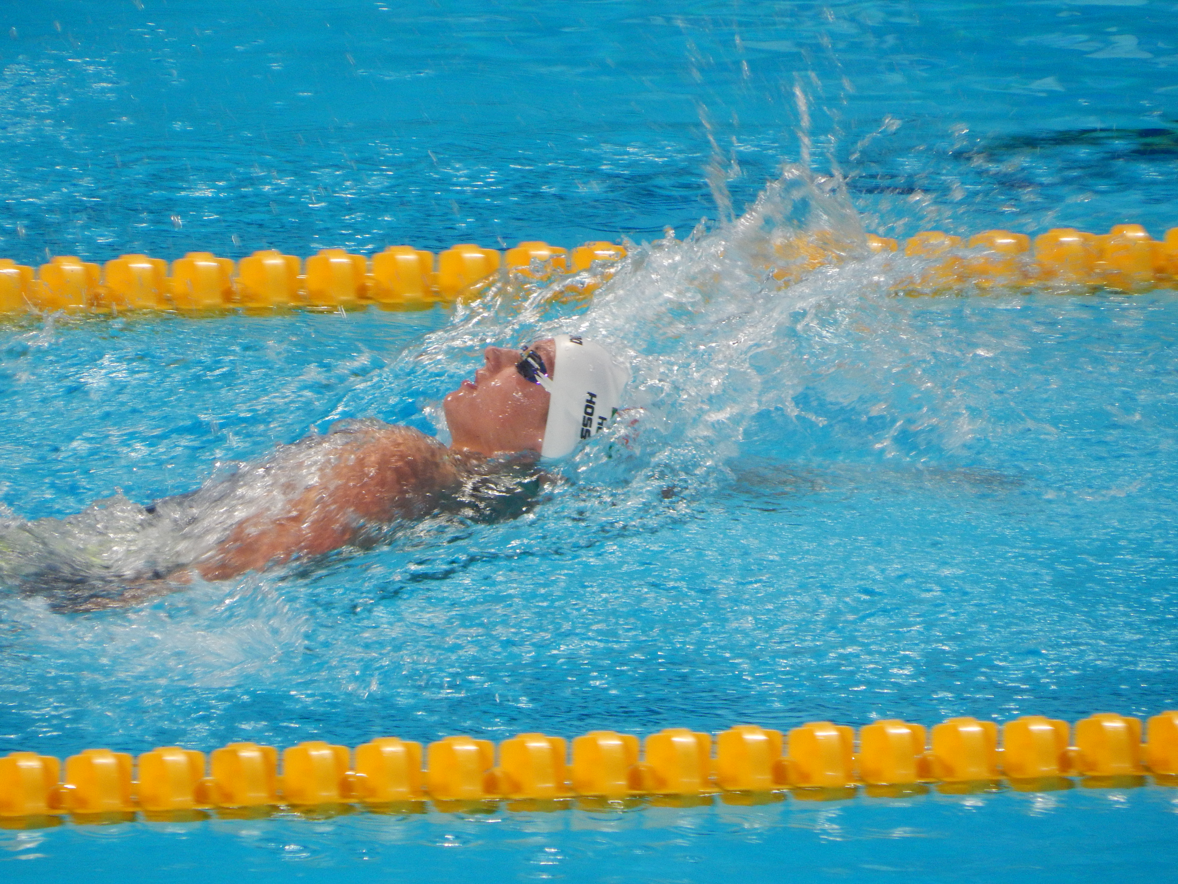 Katinka Hosszú swims to gold at 200m IM in Kazan